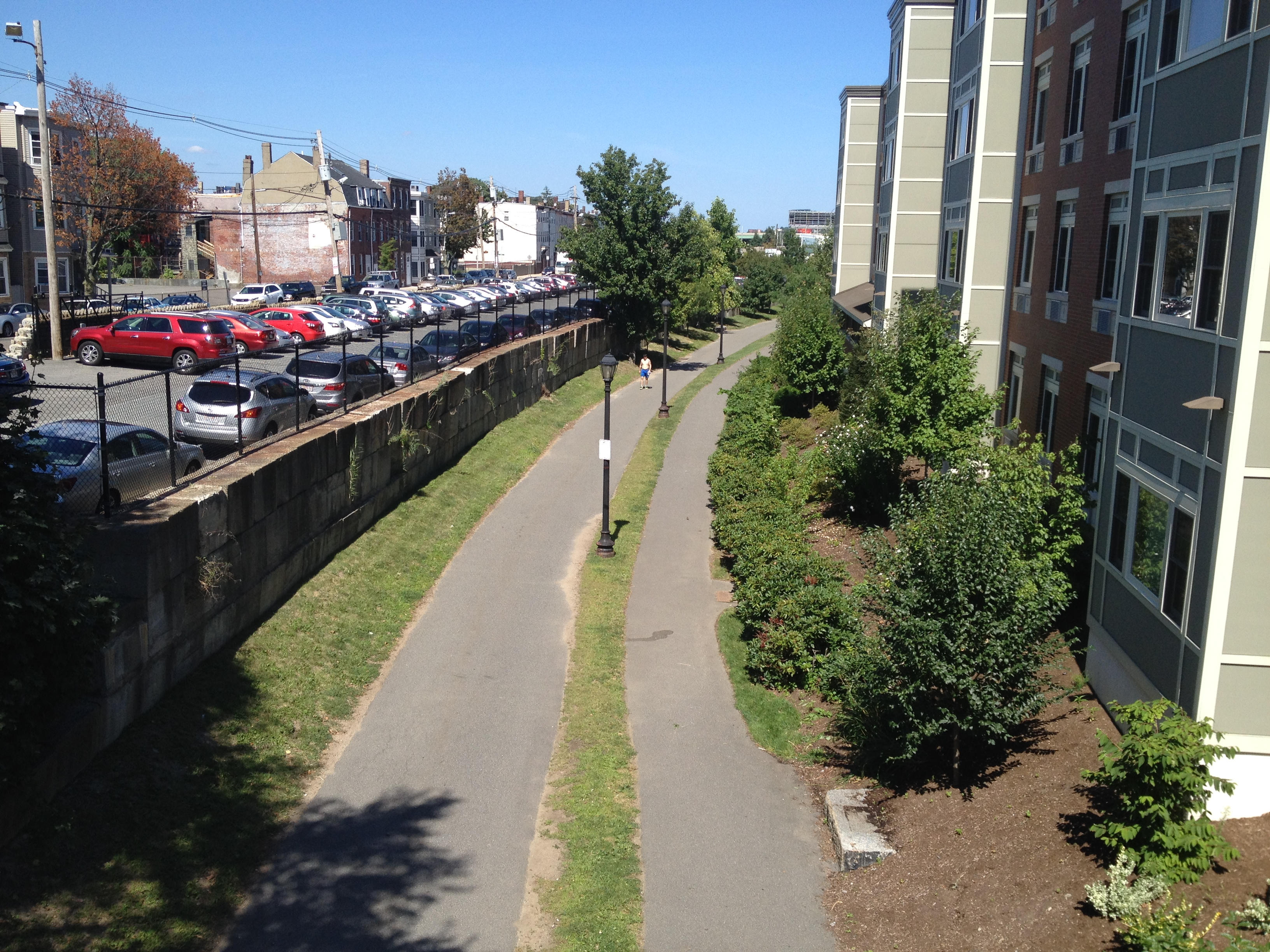 East Boston Greenway looking north from Maverick Street overpass.